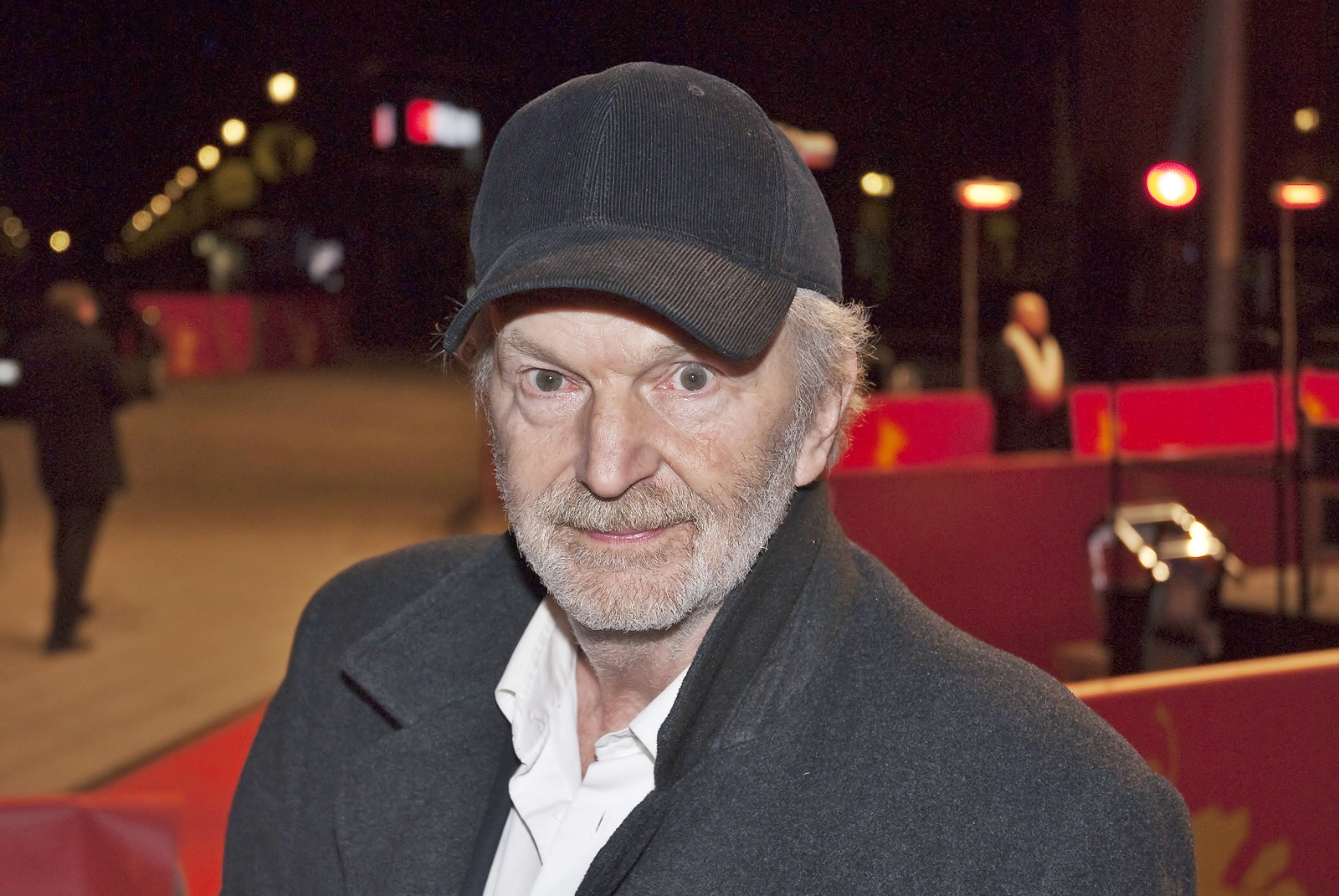 Michael Gwisdek, German actor; Opening of the 59th Berlin International Film Festival